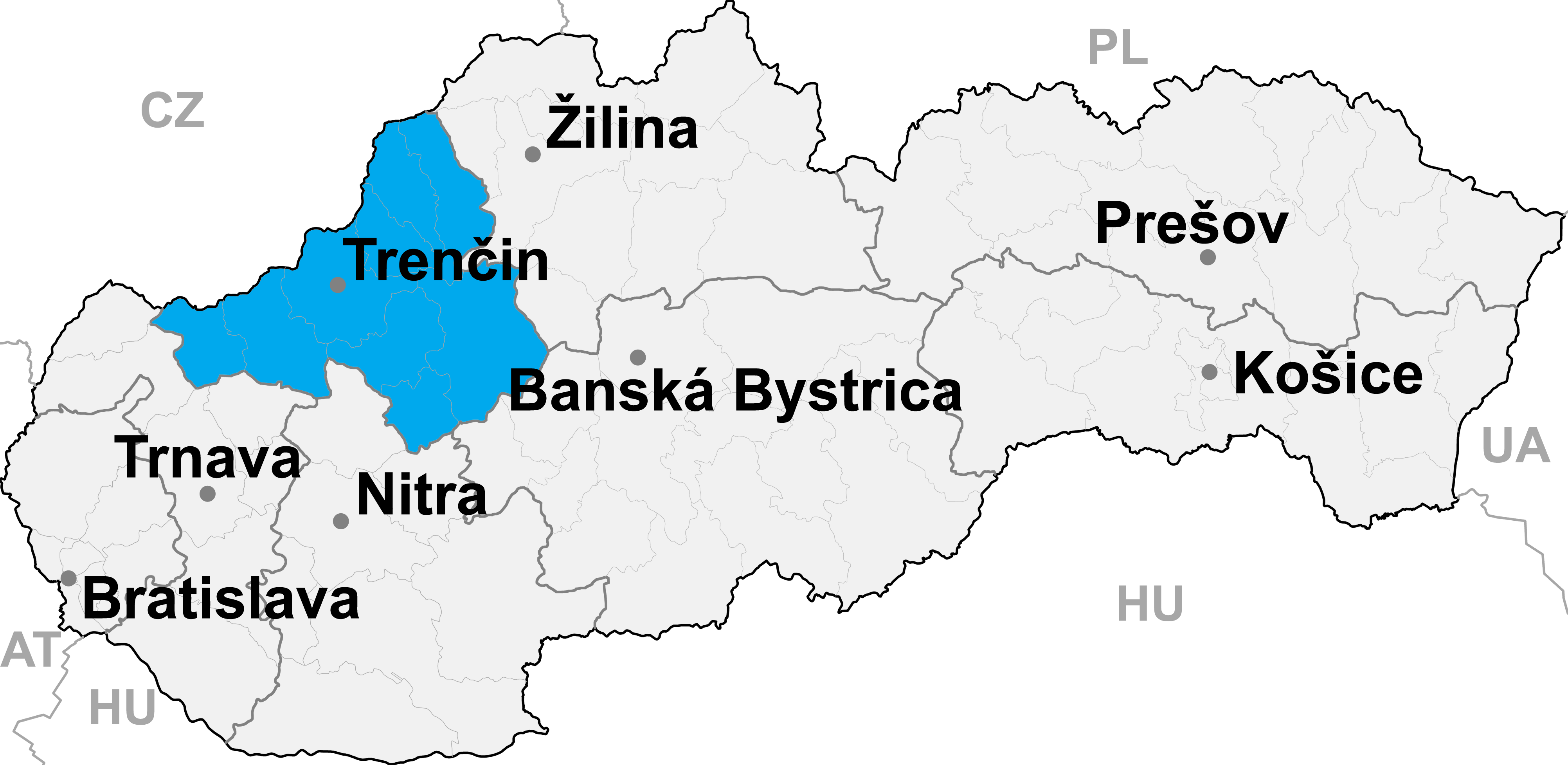 map of Slovakia, district (kraj) of Trenčín highlighted